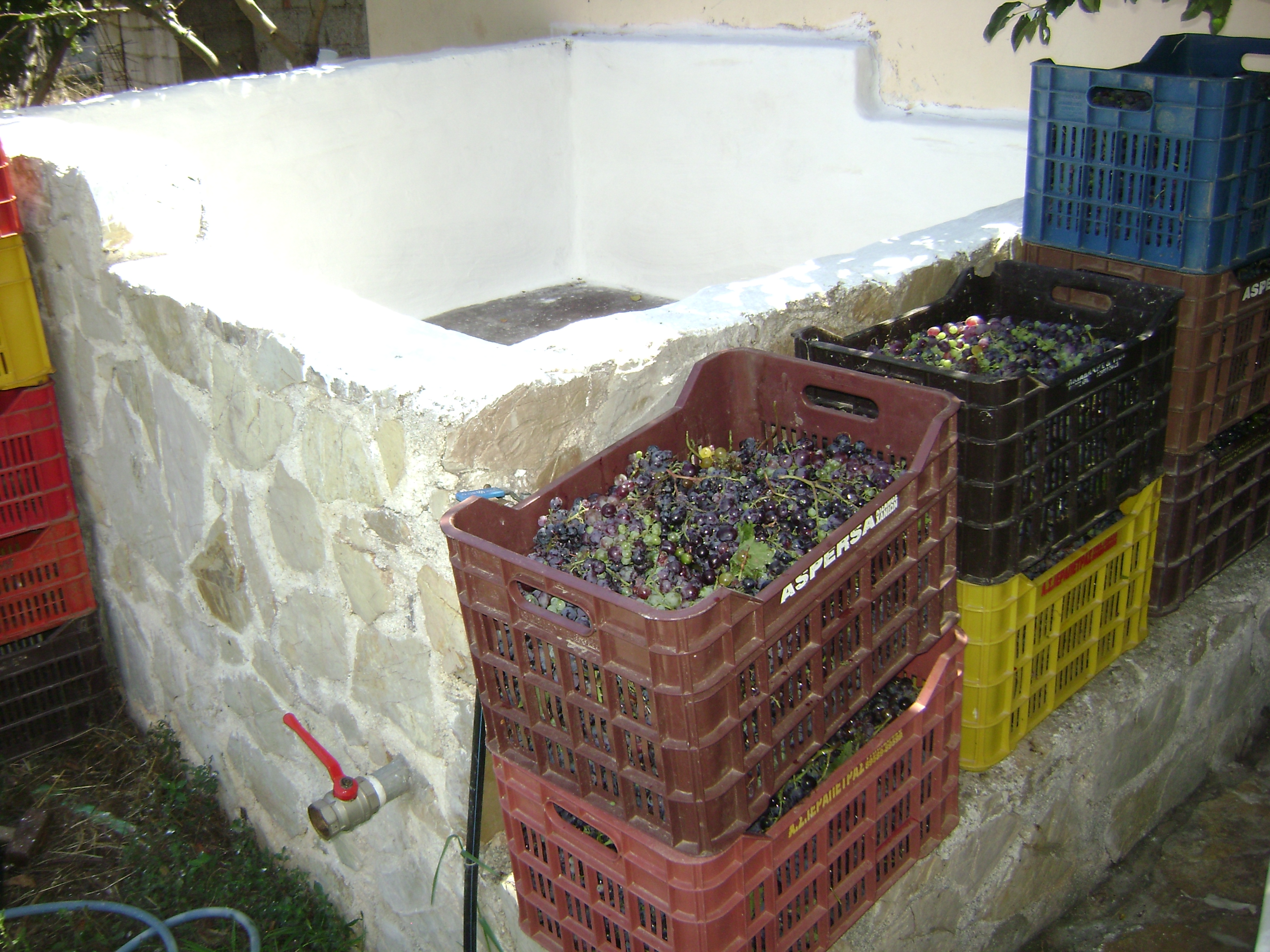 Wine press, Crete-Greece